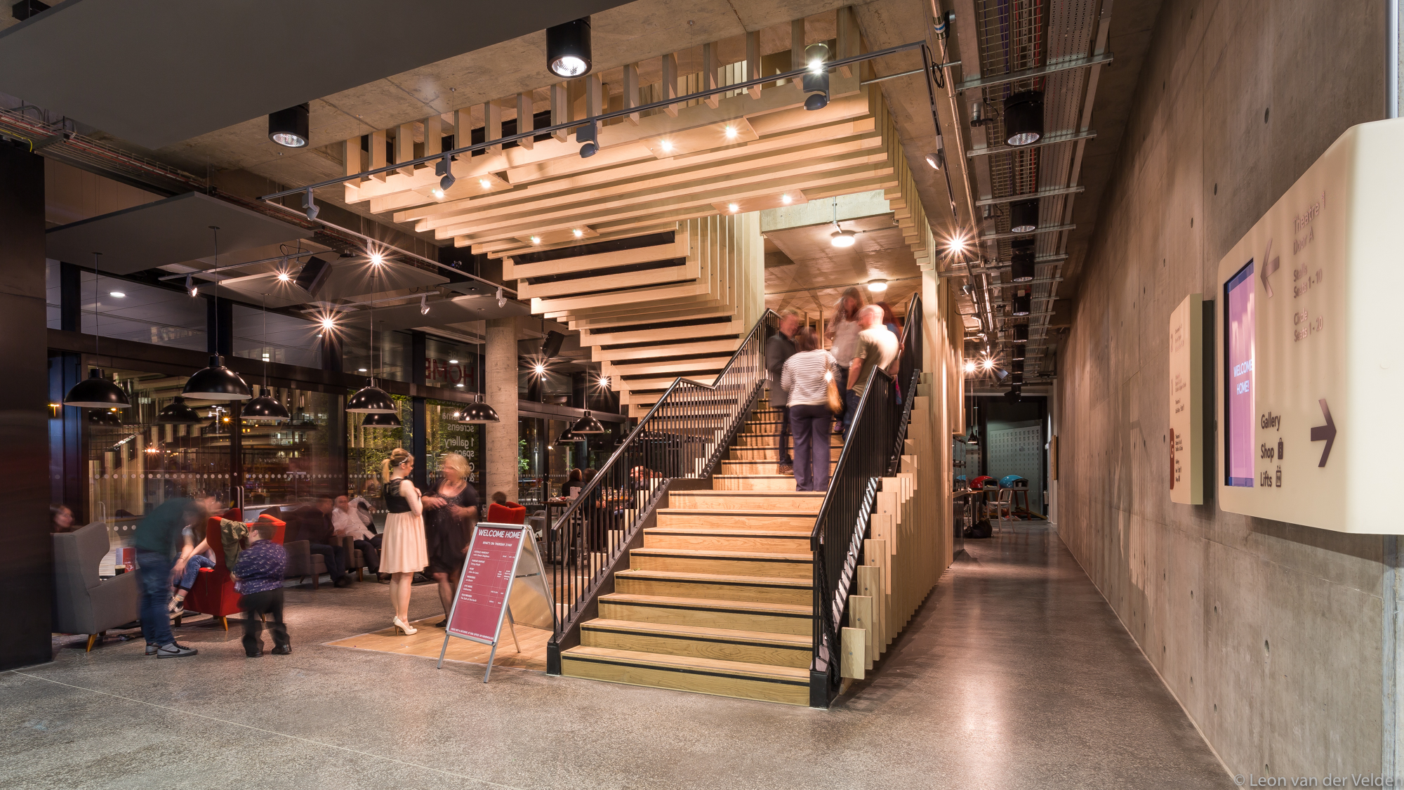 HOME centre for international contemporary art, theatre and film.